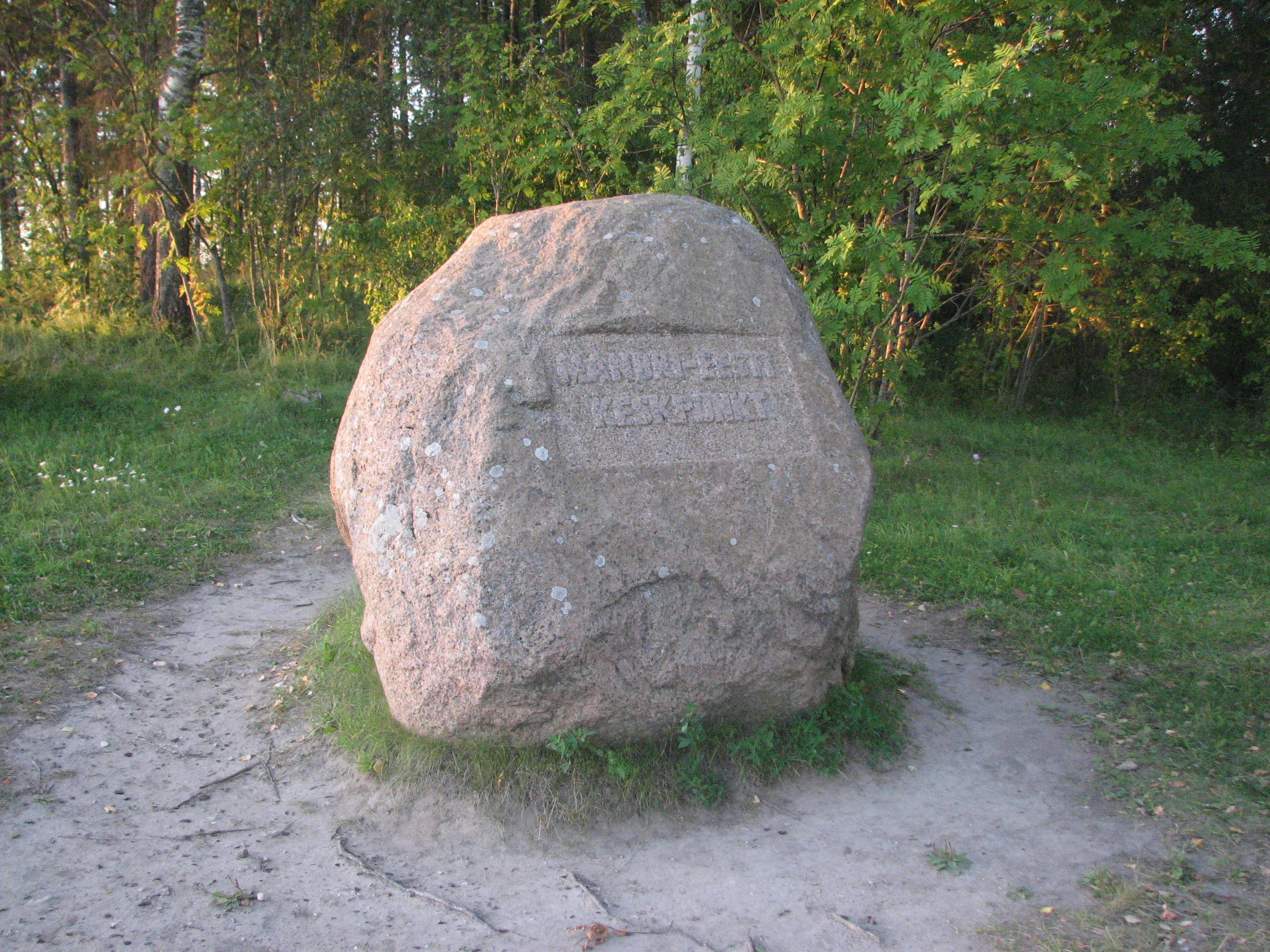 Stone marking the geographic centre of continental Estonia.